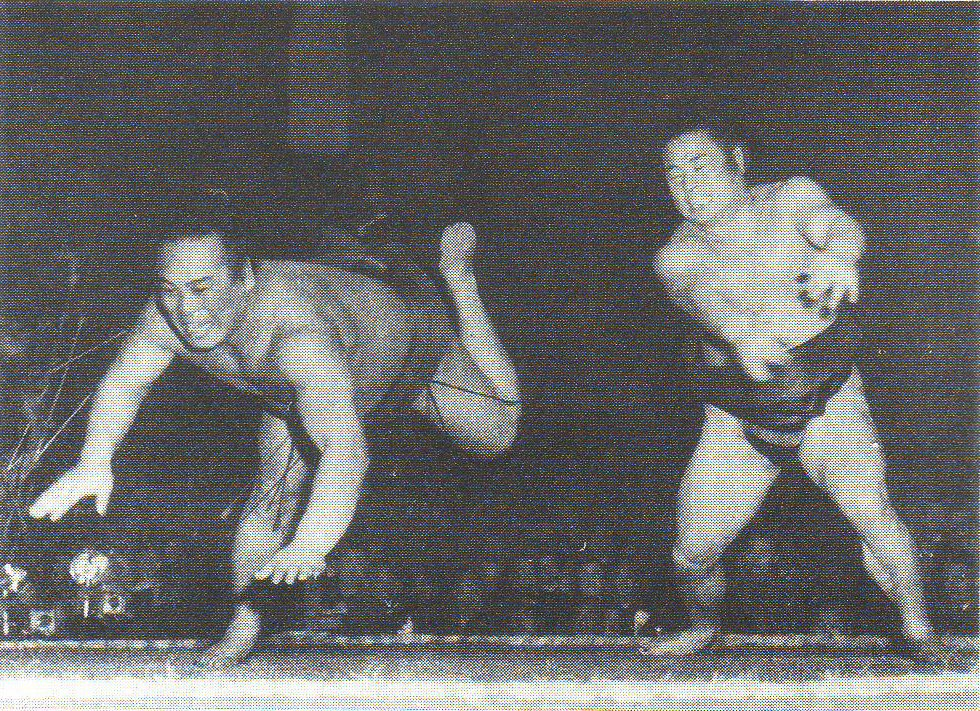 Tochinishiki (victory) VS Wakasegawa II (Defeat), Hatsu (Opening) Basho in 1954.